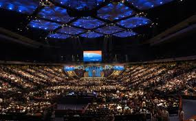 Lakewood Church